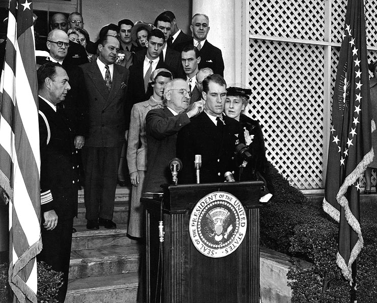 Lieutenant (Junior Grade) Thomas J. Hudner, USN, receives the Medal of Honor from President Harry S. Truman, in ceremonies held at the White House, Washington. Among the others present were members of LtJG Hudner's family, Rear Admiral Robert L. Dennison, USN, (at left) and Secretary of the Navy Francis P. Matthews (standing immediately behind and above RAdm. Dennison).